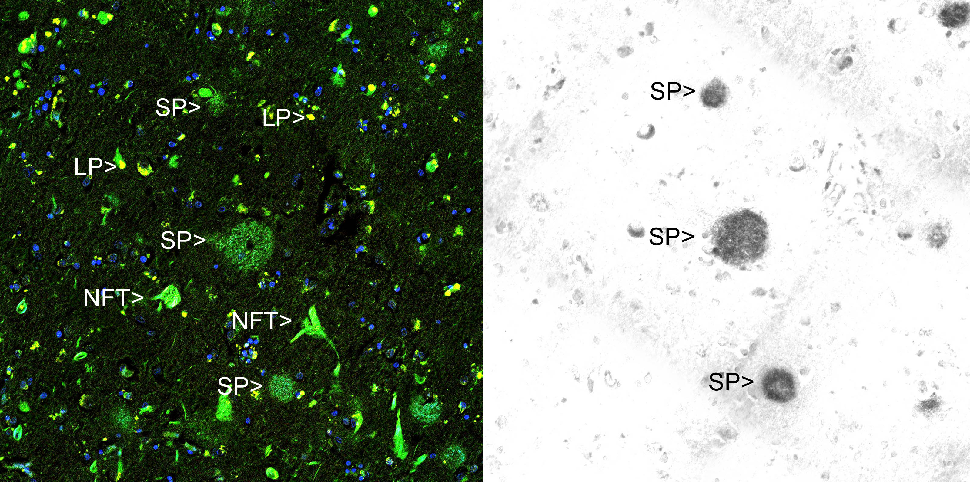 Thioflavin stain (left) and amyloid-Beta antibody immunocytochemistry (right) on adjacent sections of the hippocampus of a patient suffering from Alzheimer's disease. Thioflavin S is a fluorescent dye which binds both senile plaques (SP) and neurofibrillary tangles (NFT). Amyloid beta is a peptide derived from the amyloid precursor protein which is only found in senile plaques. The left image also has a red signal which exactly superimposes the green signal in lipofuscin granules, which are autofluorescent inclusions derived from lysosomes which accumulate in the human brain during normal aging. The Antibody and image courtesy of EnCor Biotechnology Inc.